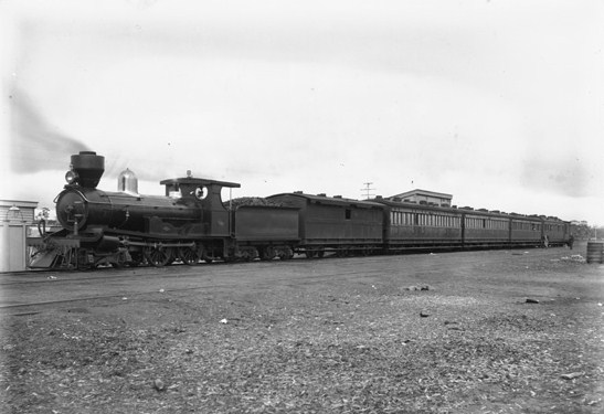 A three quarter view of WAGR R class steam engine, no. R152, fitted with a soft coal chimney, with an Eastern Goldfields Railway passenger train at Boorabbin), Western Australia.